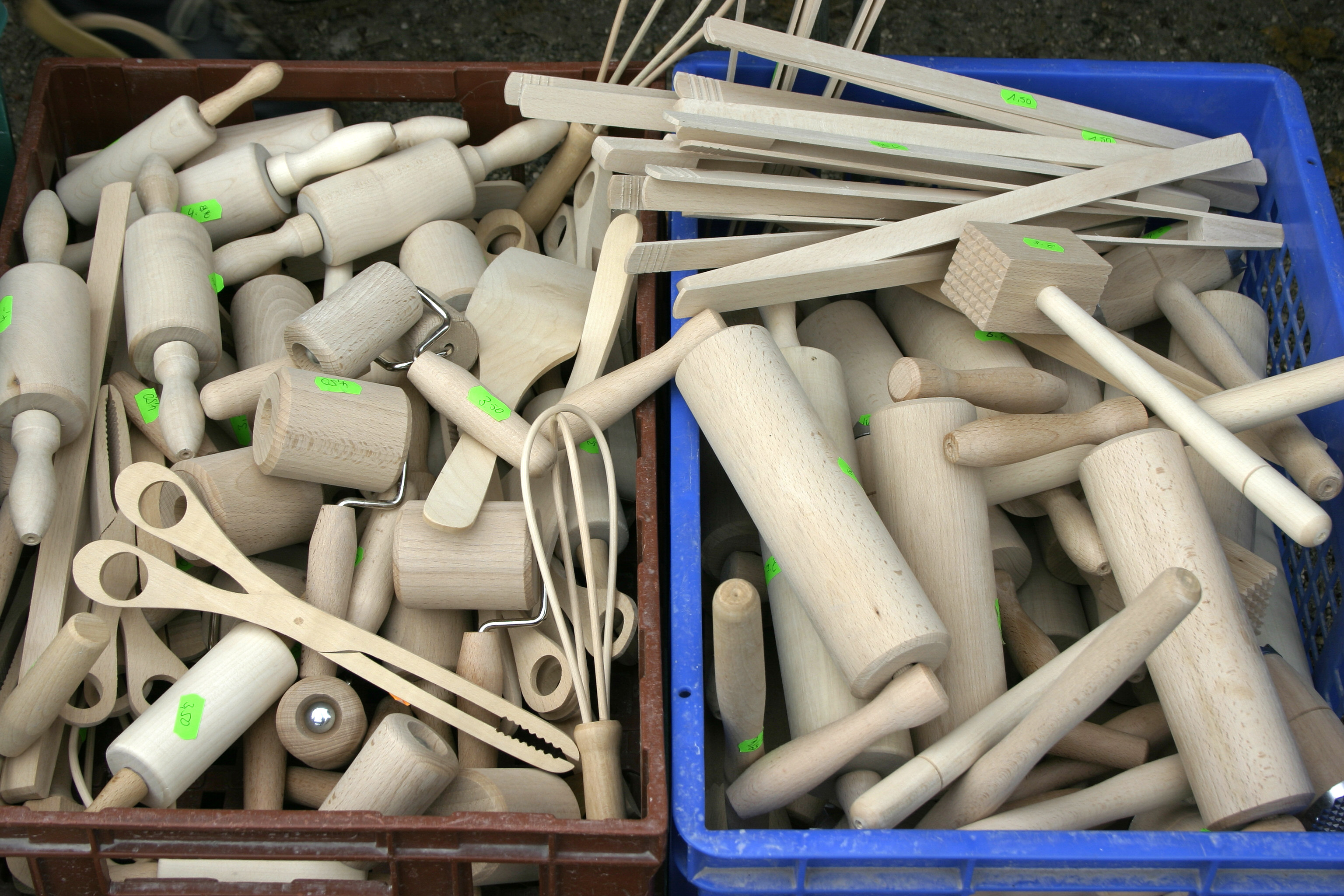 Wooden kitchen utensils